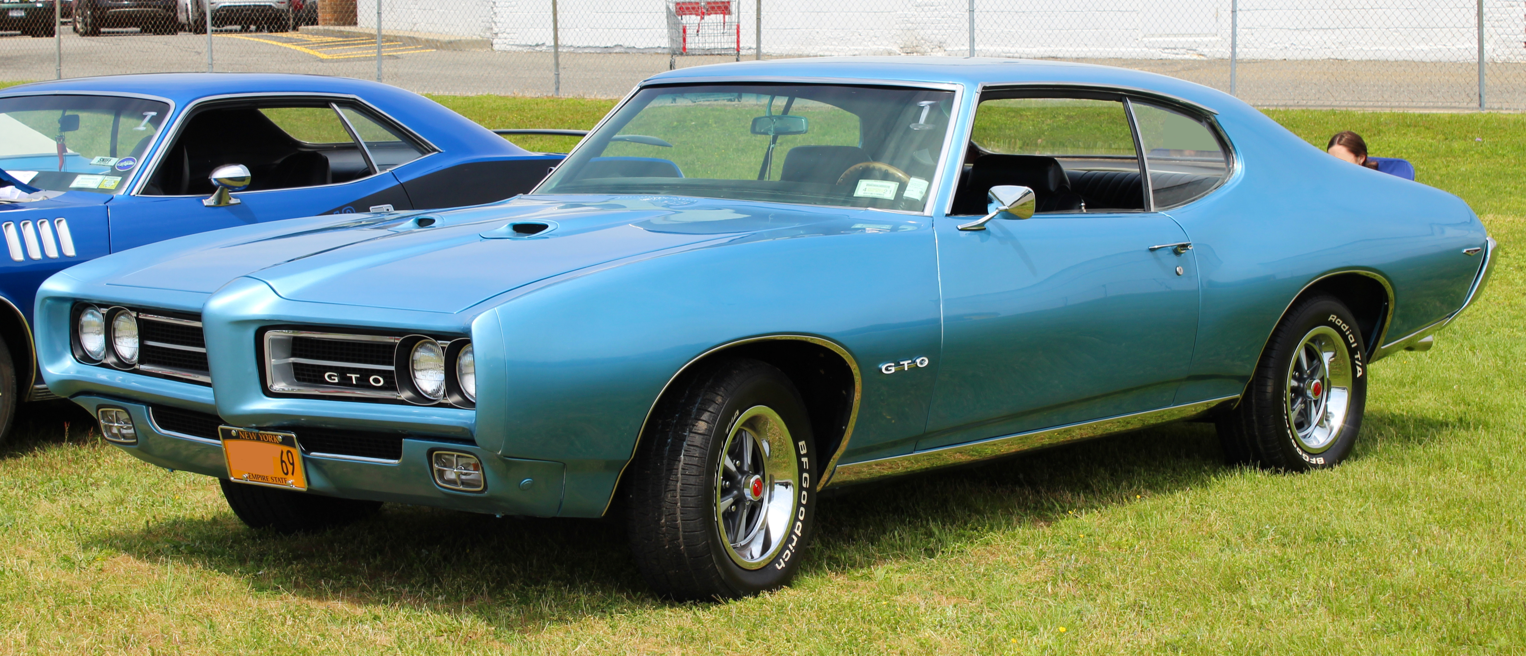 A 1969 Pontiac GTO photographed during at a classic car show, in Merrick, New York, USA